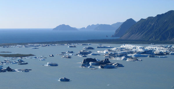 Erin McKittrick, Ground Truth Trekking, own work